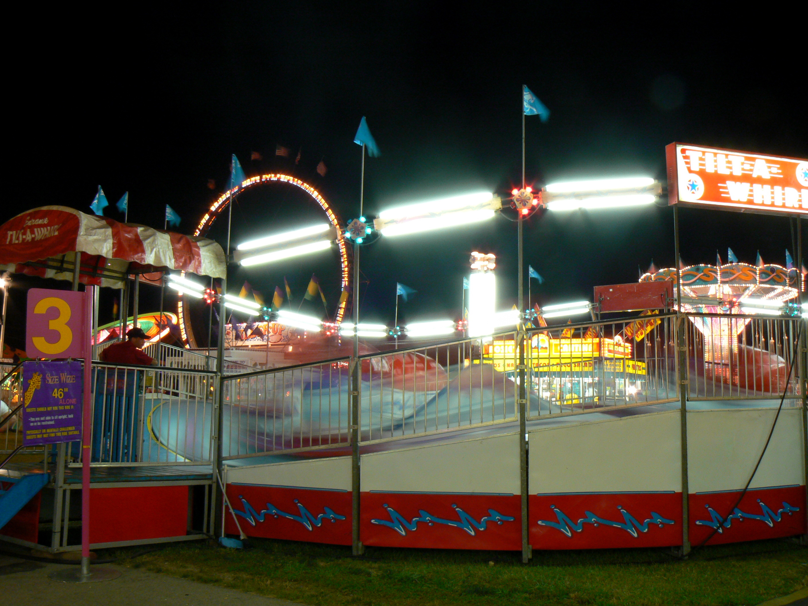 While I understand the whirling, I have to say, the track angles are almost too slight for me to consider it tilting.